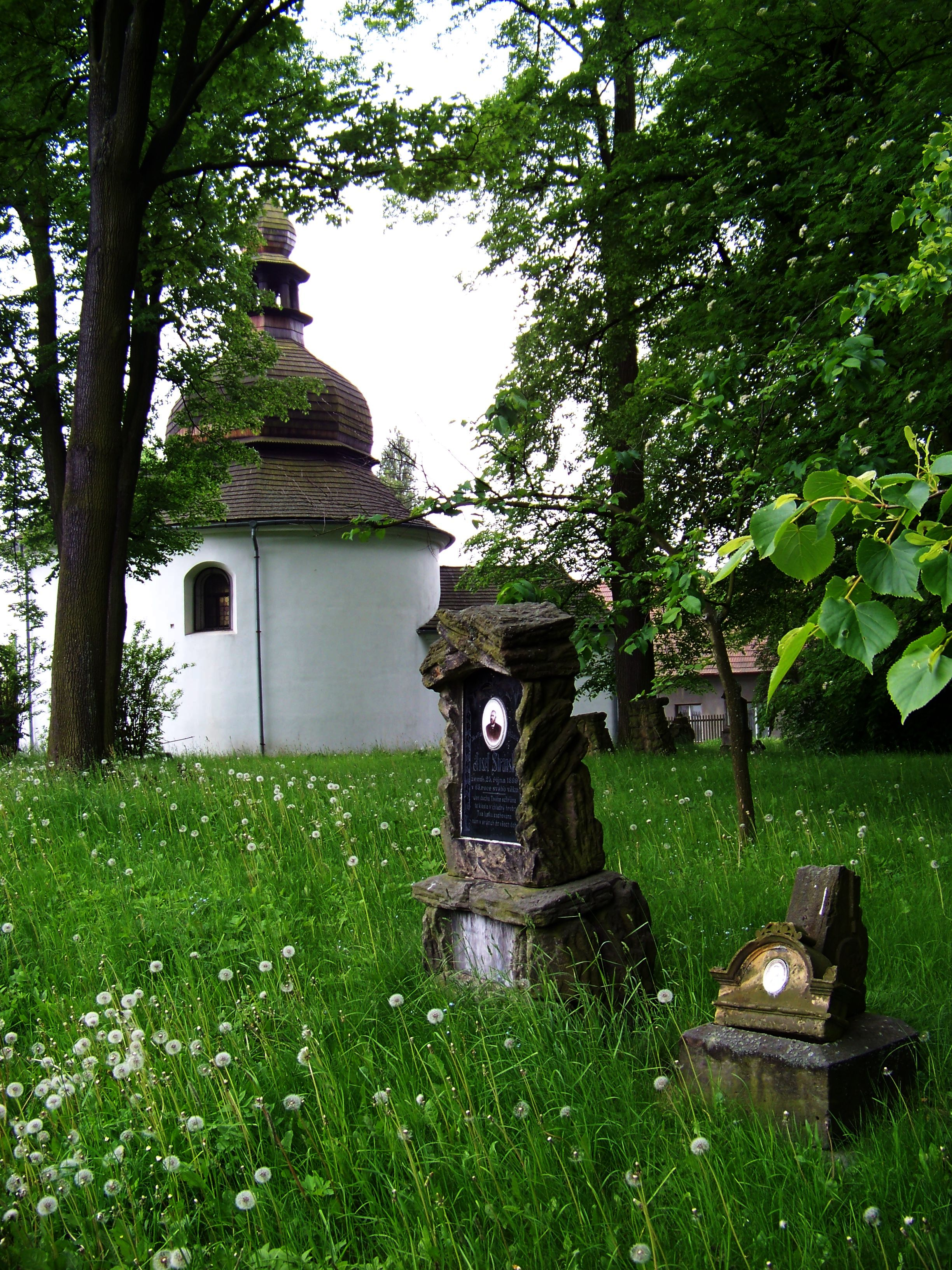 Česká Třebová, Ústí nad Orlicí District, Pardubice Region. A cemetery at Saint Catherine chapel.